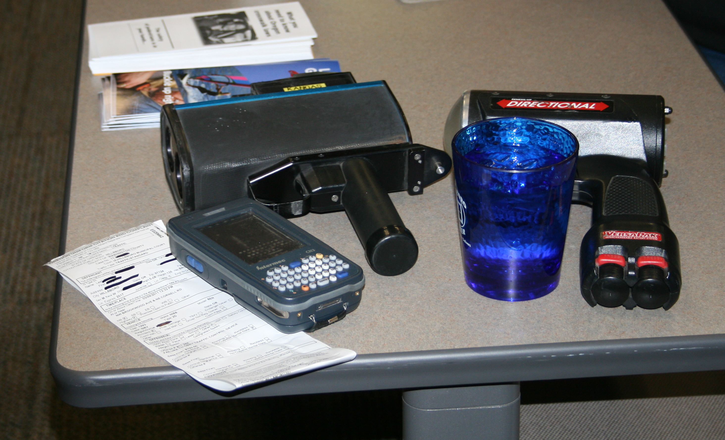 Police traffic enforcement equipment.